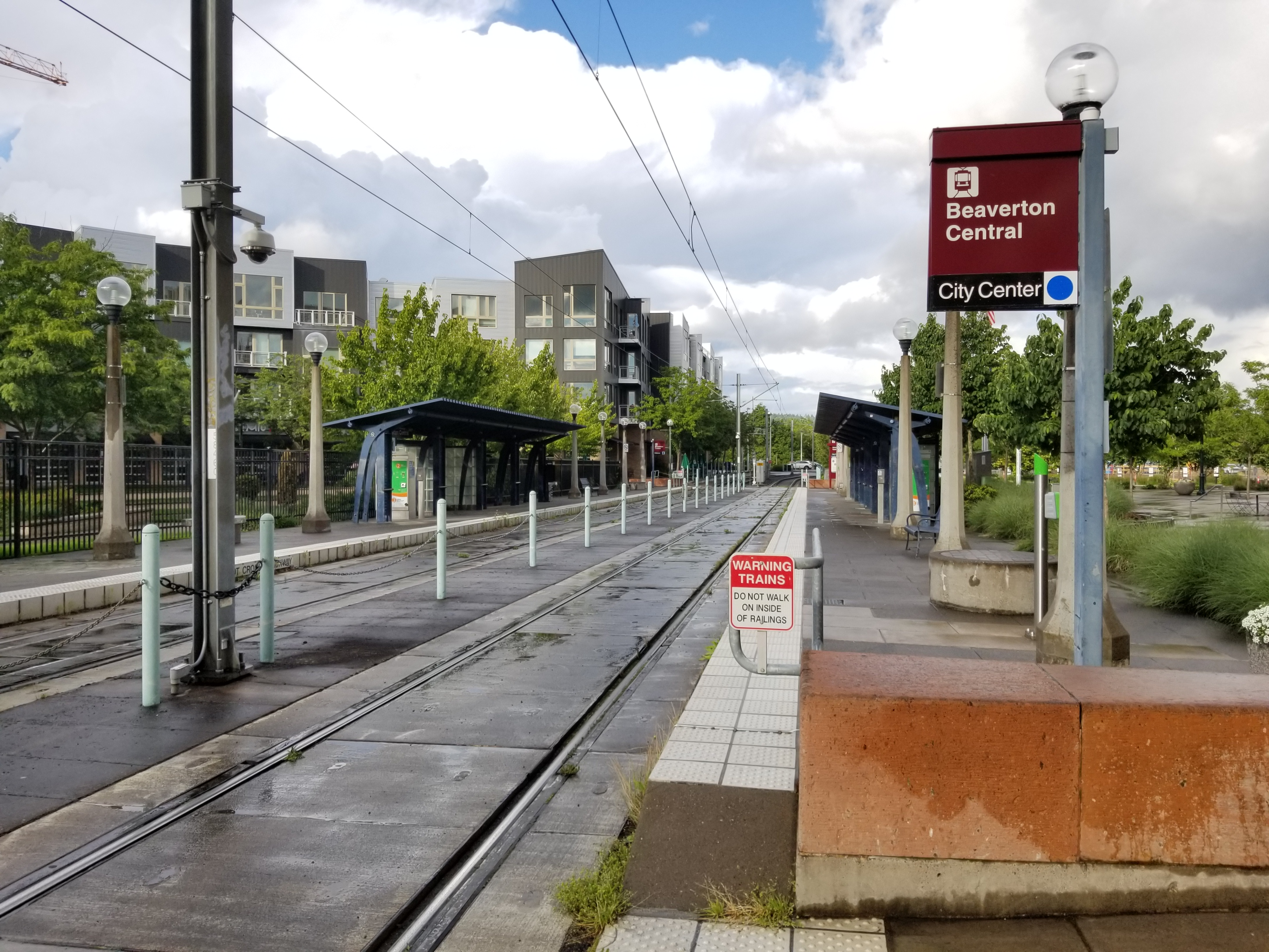 The platforms of Beaverton Central MAX station facing east.